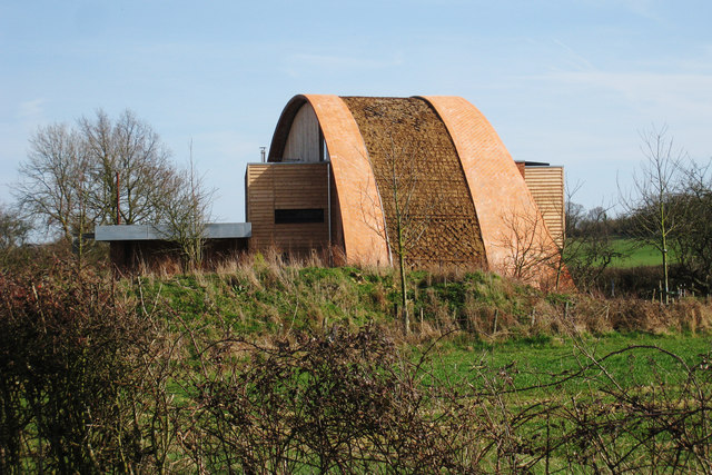 Crossway, Pagehurst Road, Staplehurst, Kent "Grand Designs" Keywords: arch, channel 4, eco-house, sustainable